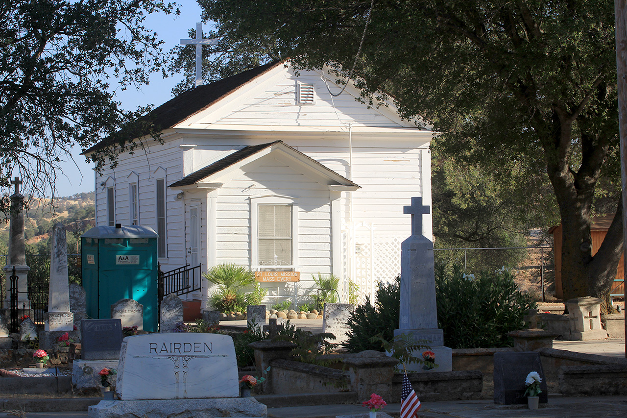 St. Louis Catholic Church — in the La Grange Historic District, Stanislaus County, northern California.